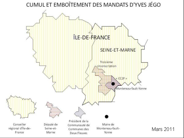 Map showing the various electorate mandates of Yves Jégo.